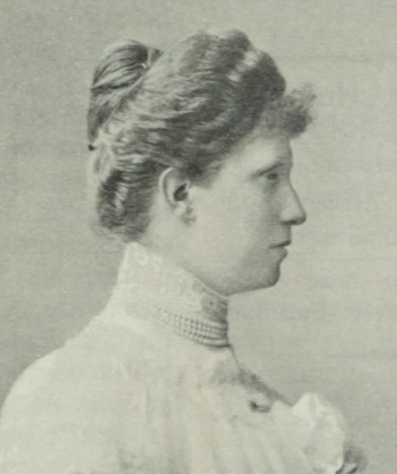 Princess Clara of Bavaria